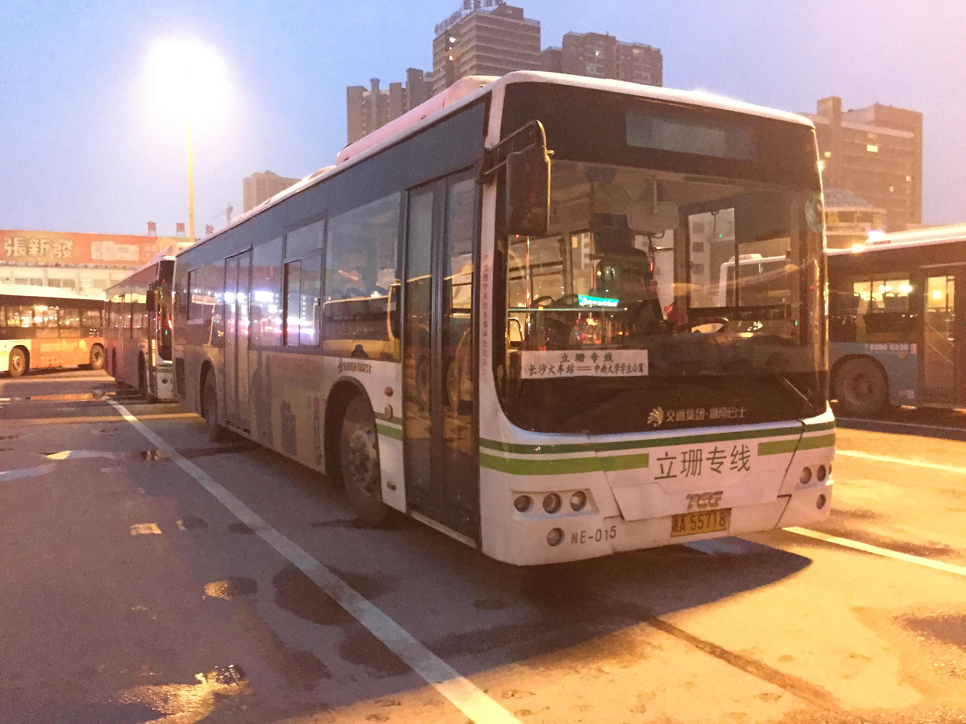 This route is named after Mr Yu Pang-lin. TEG, Hunan's local brand, takes up nearly a half of Changsha bus fleet.